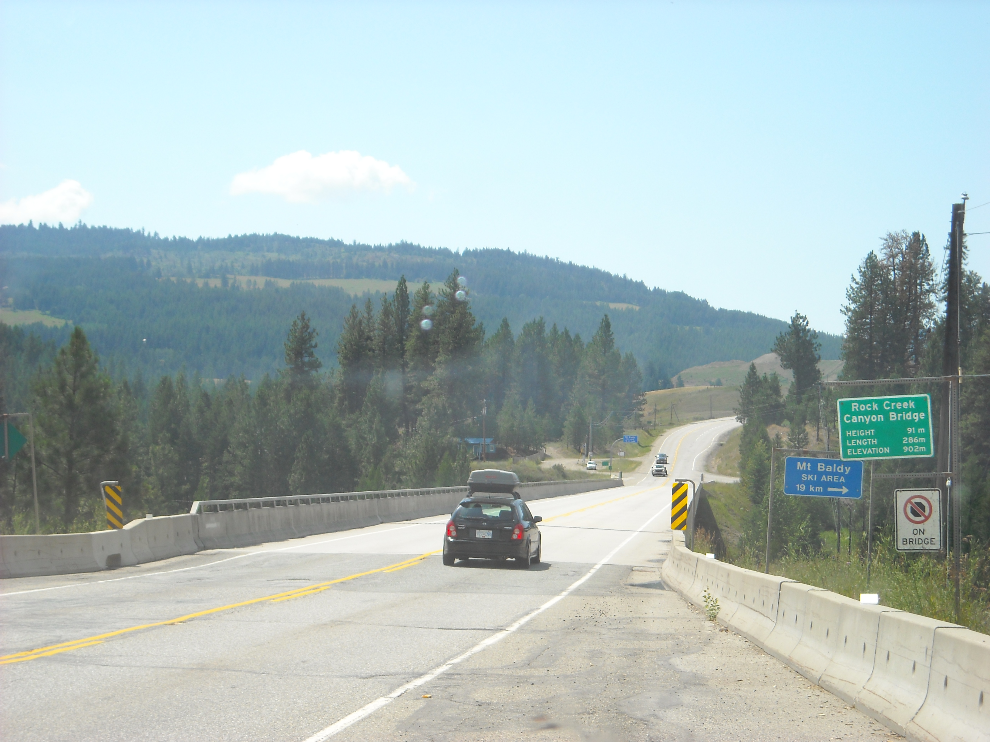 Looking west across the Rock Creek Canyon Bridge to its west end where the road to Mount Baldy branches off Highway 3.